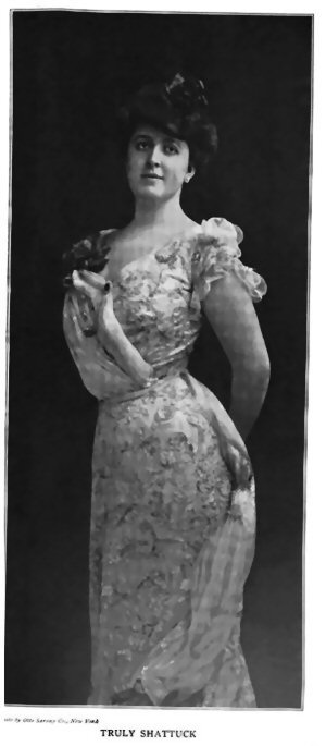 Musical Actress Truly Shattuck circa 1905